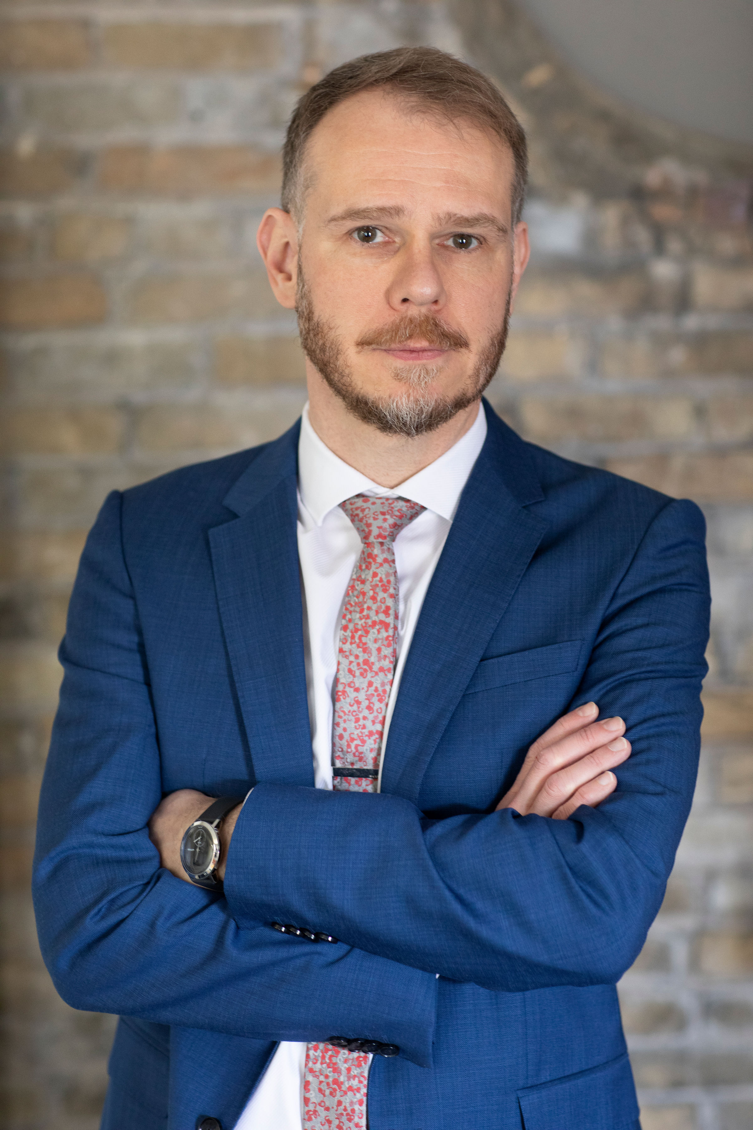 Dietram Scheufele